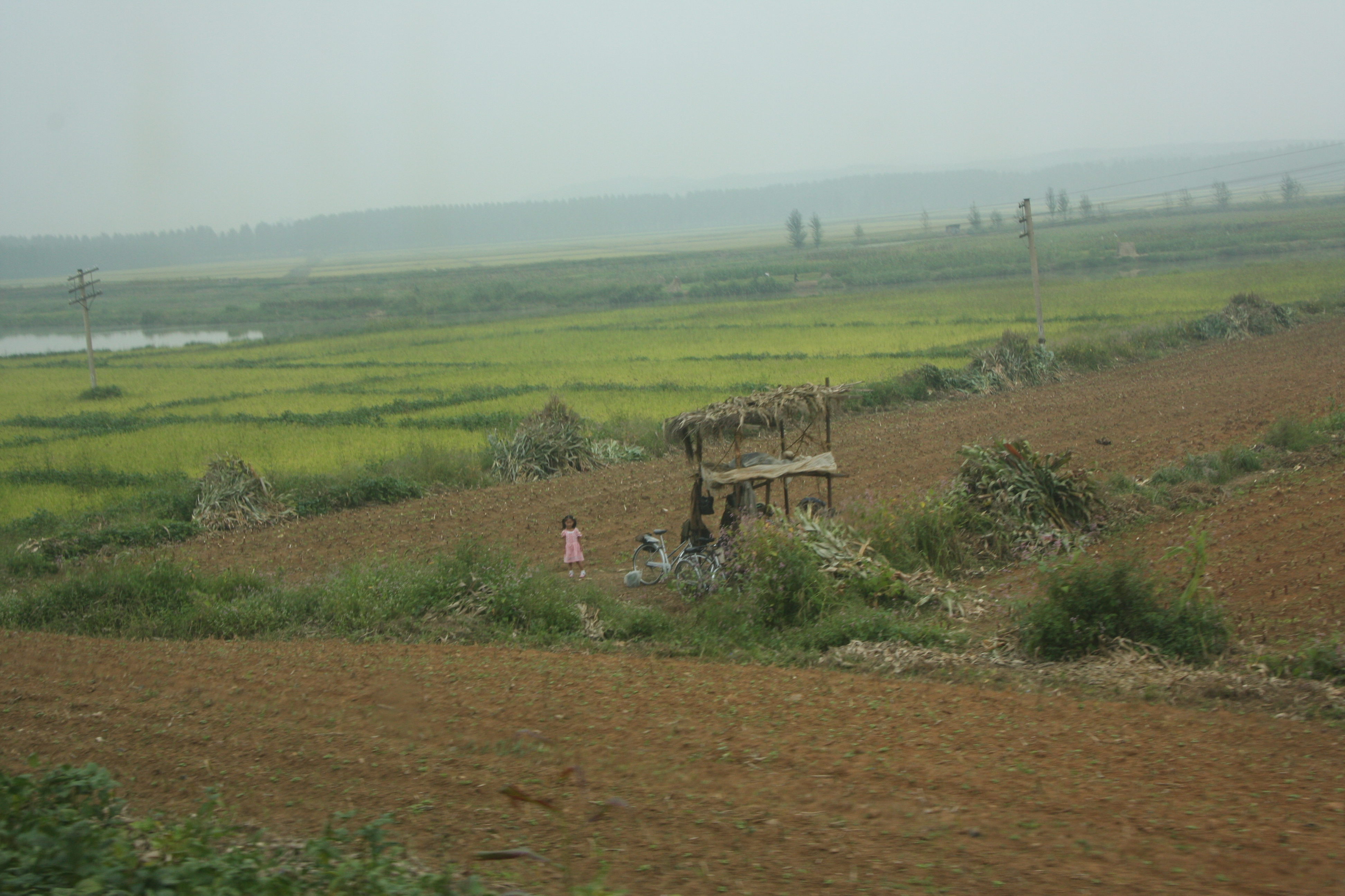 Fields in North Korea.